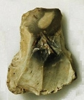 Mesolithic axe of flint from Høgnipen, Norway.